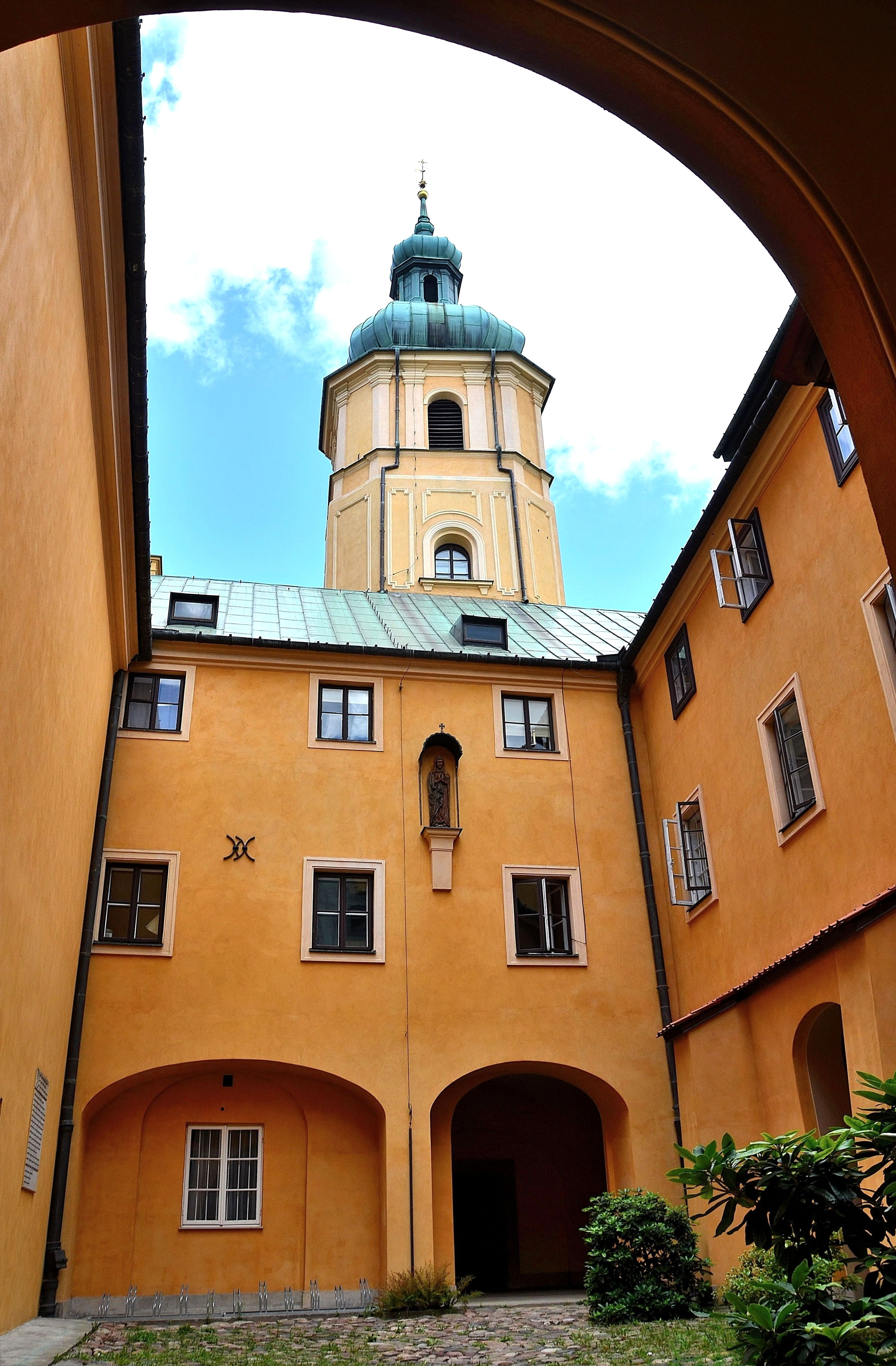 Monastery courtyard adjacent to St. Martin's Church in Warsaw